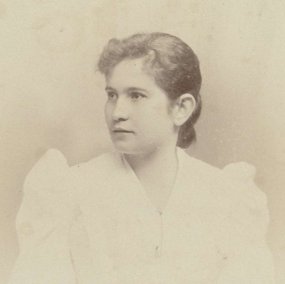 Portrait of Marie Jeannette de Lange (1865-1923), later married name van Jan Bouman - date unknown say 1900